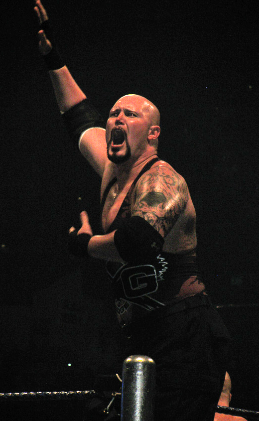 Luke Gallows @ Adelaide, South Australia 'Smackdown' house show on the 3rd of August '10